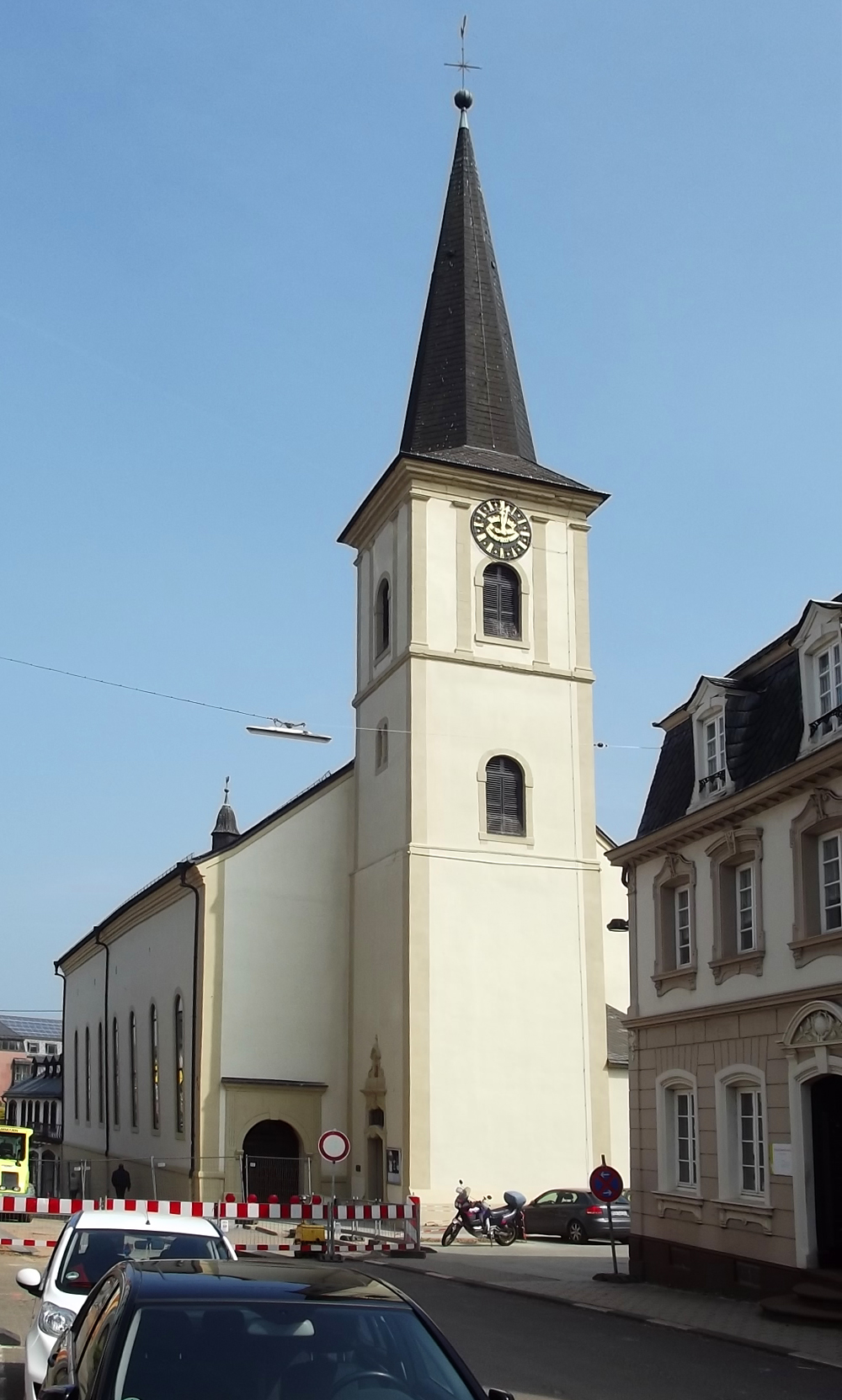 Exterior of the roman catholic church in Wadern, Saarland